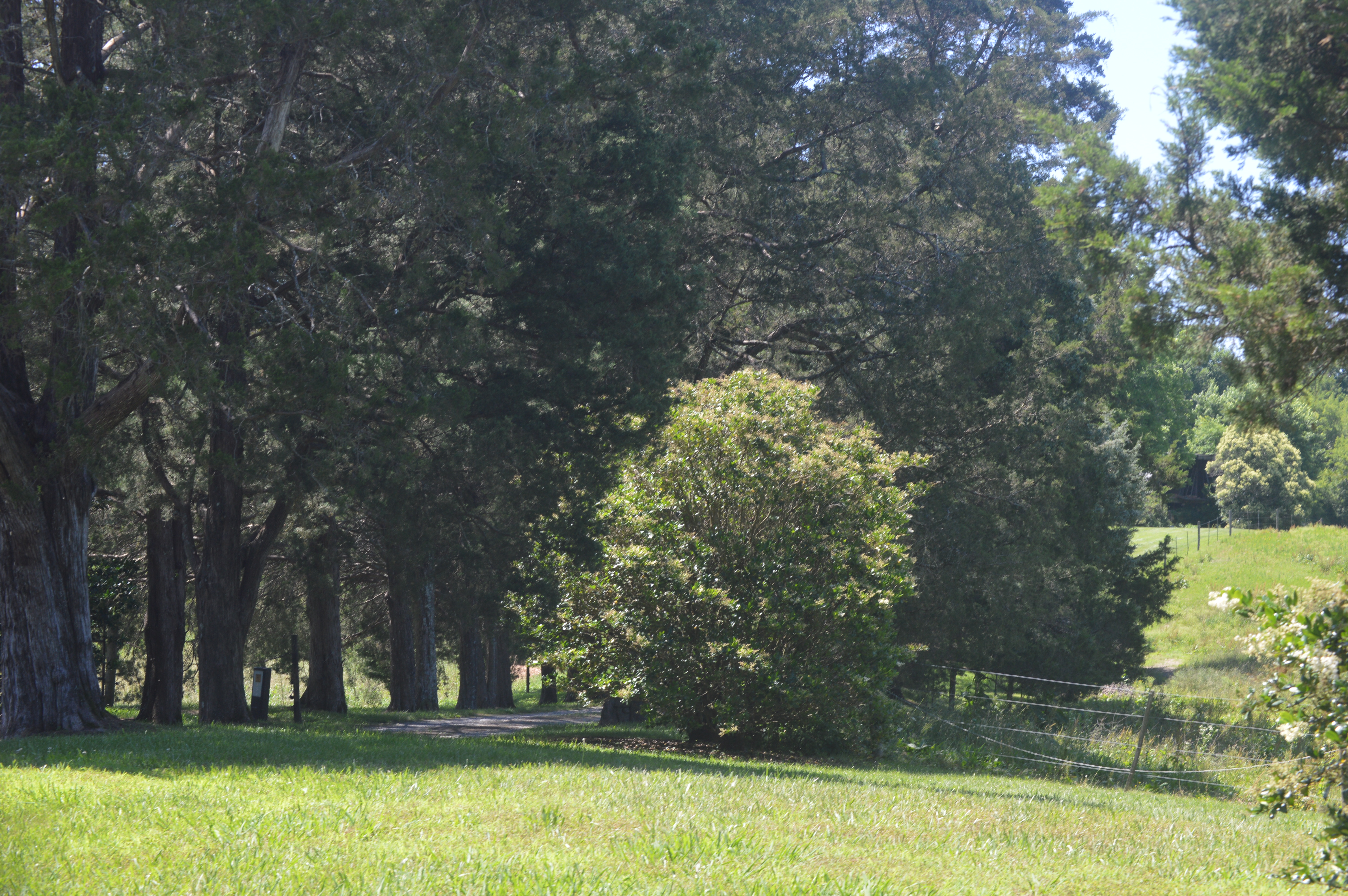 Entrance to the Tarover estate, seen looking northwest from River Road west of South Boston in Halifax County, Virginia, United States. The estate is listed on the National Register of Historic Places.